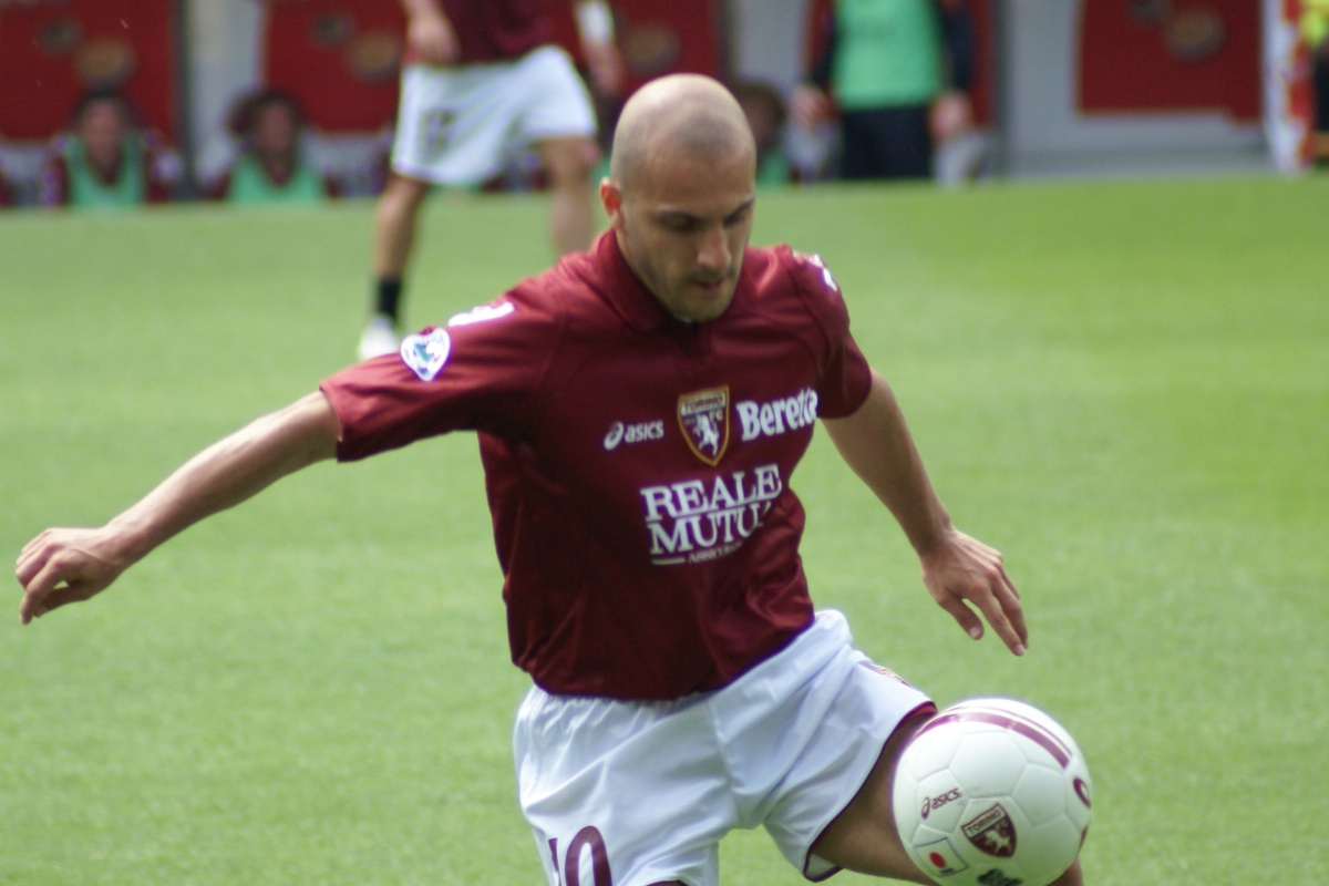 Alessandro Rosina is a football player.